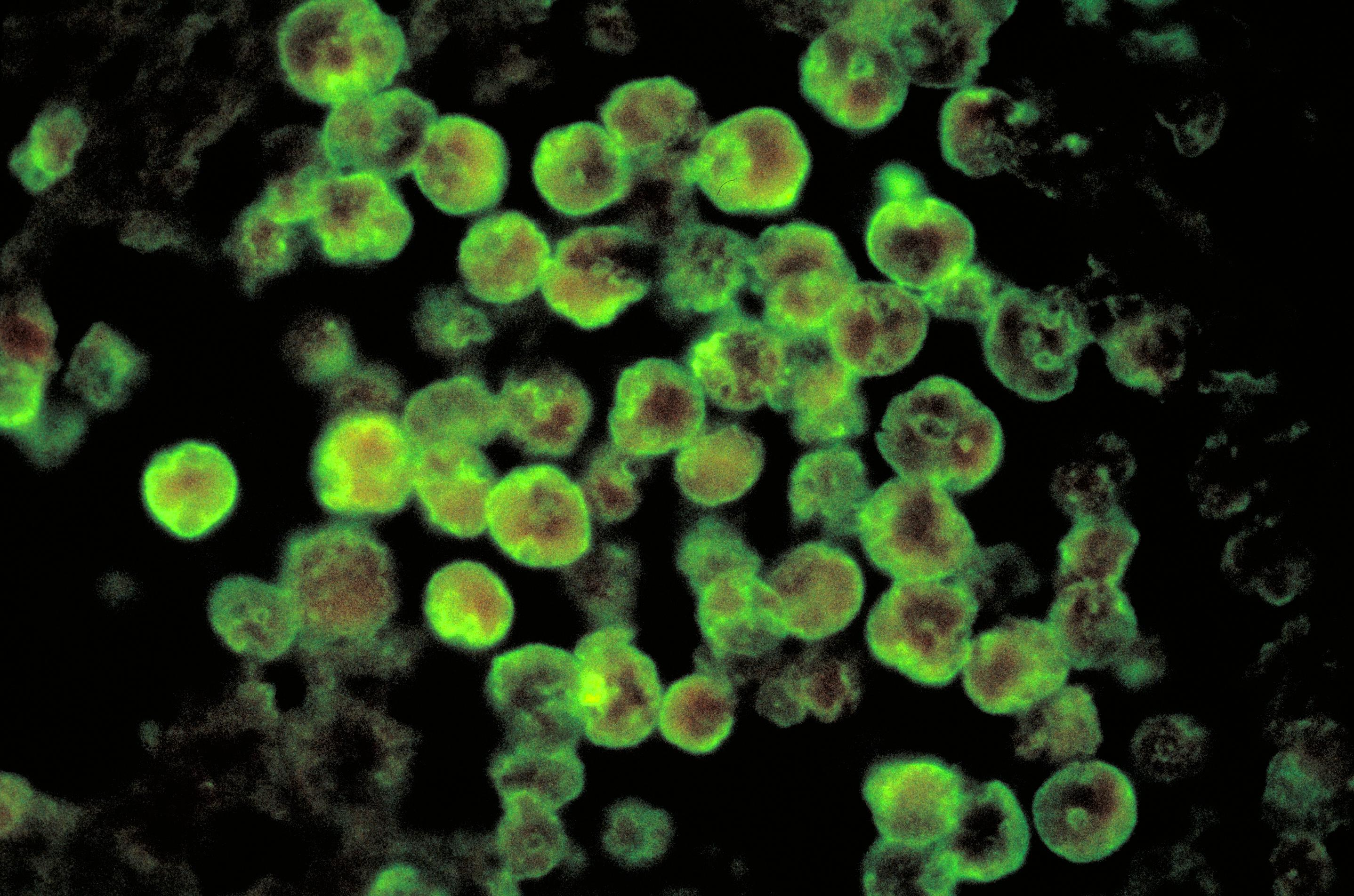 Histopathology of amebic meningoencephalitis due to Naegleria fowleri. Direct fluorescent antibody stain.